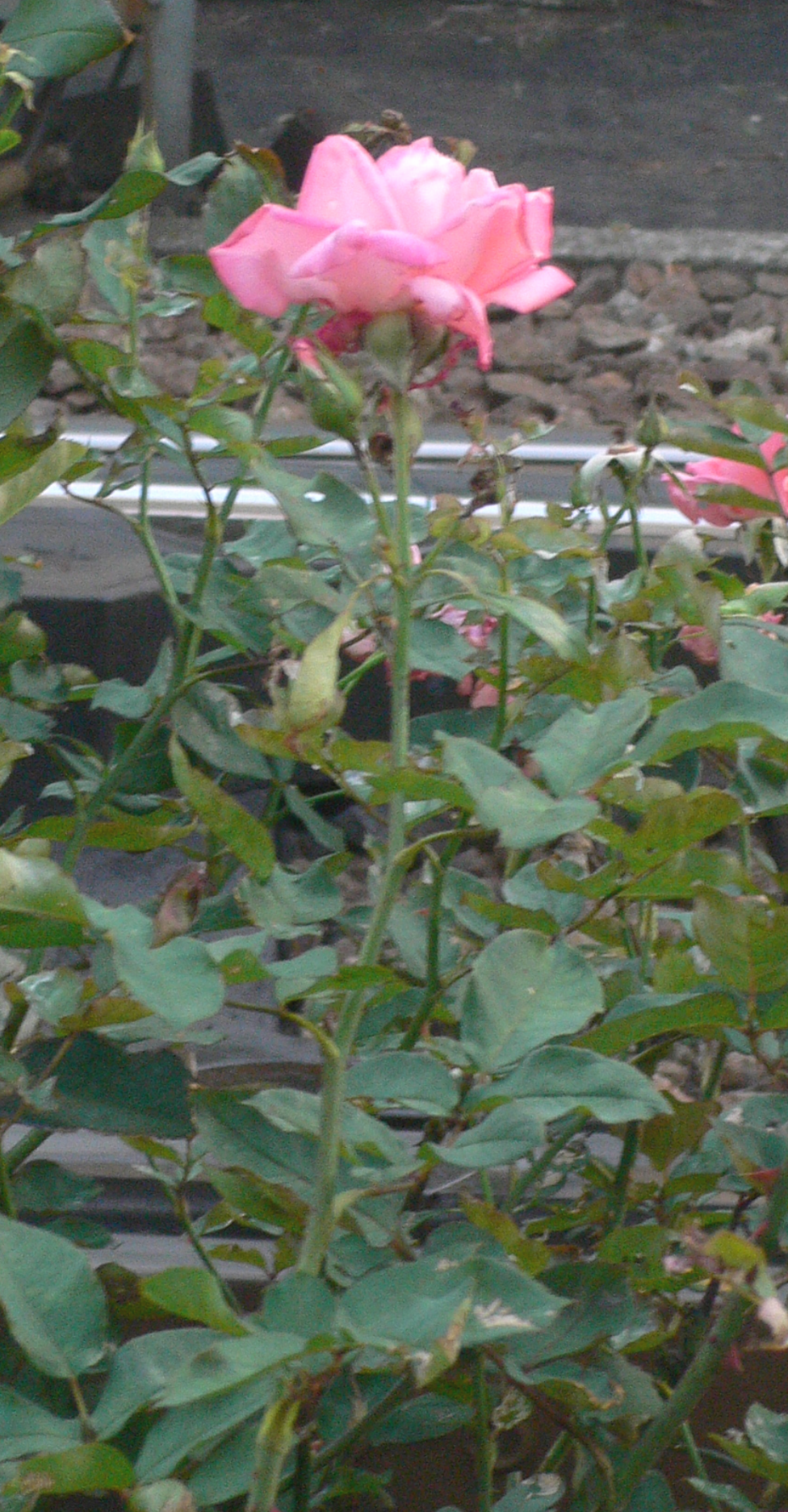 Rosa 'Princess Aiko'